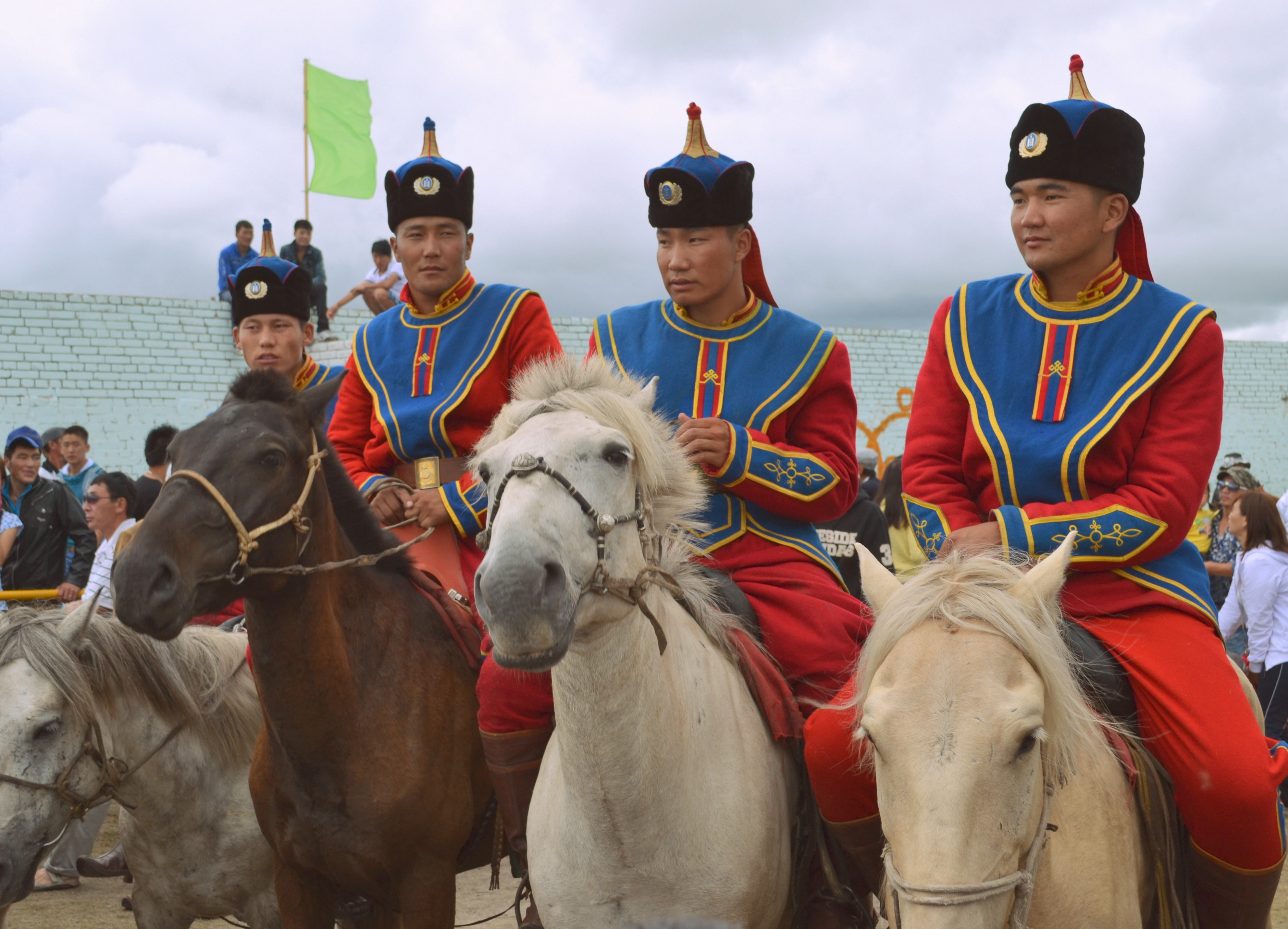 Mongol military people. Töv Province, Mongolia